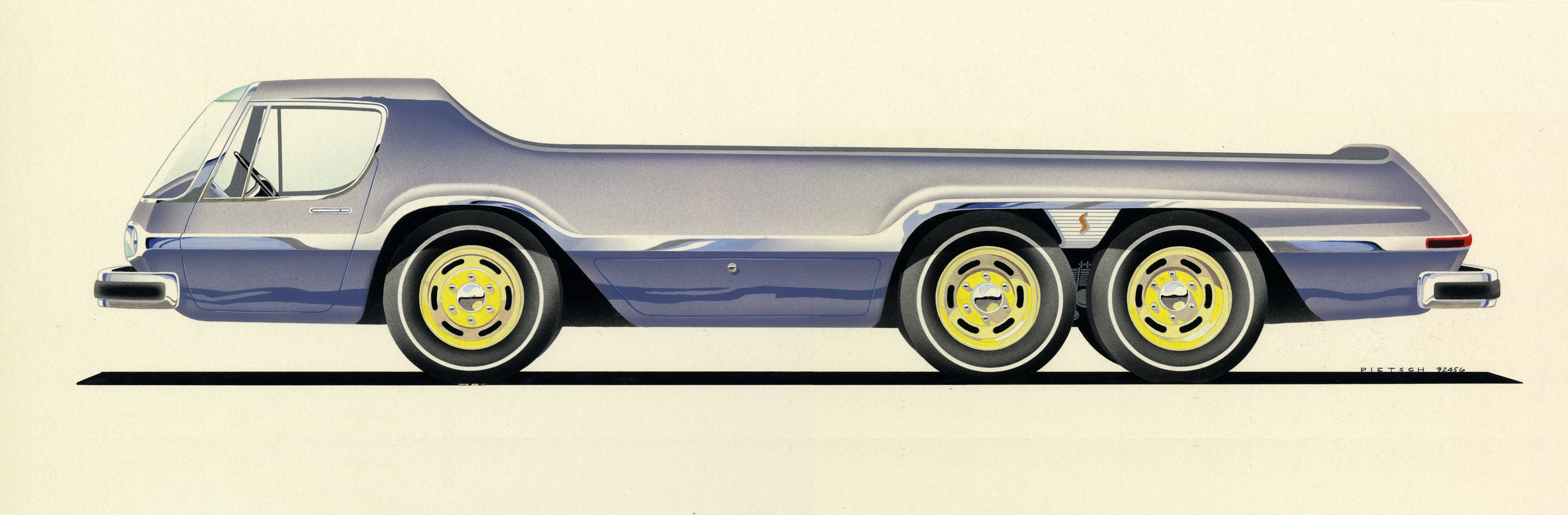 The original drawing has been donated to the Museum of Fine Arts, Boston, but the image posted here was made by me, T. W. Pietsch III. Please see the correspondence below from Jennifer C. Riley, Head of Image Licensing and Digital Archives Museum of Fine Arts, Boston. You may tell them that while the Museum of Fine Arts, Boston owns the artwork; we do not retain the copyright to Theodore Wells Pietsch II’s images. Best, Jennifer Jennifer Riley Head of Image Licensing and Digital Archives Museum of Fine Arts, Boston | 617-369-3777 Dear Mr. Pietsch, Regarding copyright, you retain copyright to any photos you took of the drawings made by your father. The copyright to the artworks and photographs does not revert to the Museum automatically upon donation of the works. The copyright to the photographs that you took stays with you so you have every right to upload those photos to Wikipedia. I am happy to provide you with language necessary for you to pass on to Wikipedia so you can reload the images. Since the Museum does not, in fact, hold the copyright to those photos, we cannot upload them. Best, Jennifer Jennifer Riley Head of Image Licensing and Digital Archives Museum of Fine Arts, Boston | 617-369-3777